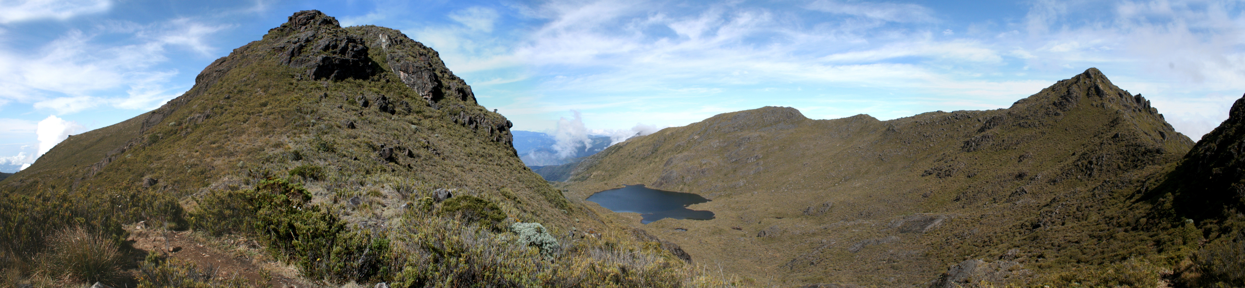 Overview of the Valle de los lagos